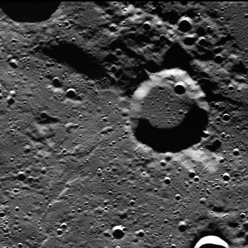 Qiu Ying crater on Mercury. Approximate north is up. Emission Angle: 0.2 Incidence Angle: 82.7 Latitude: 82.4 Longitude: 272.5 Phase Angle: 82.8